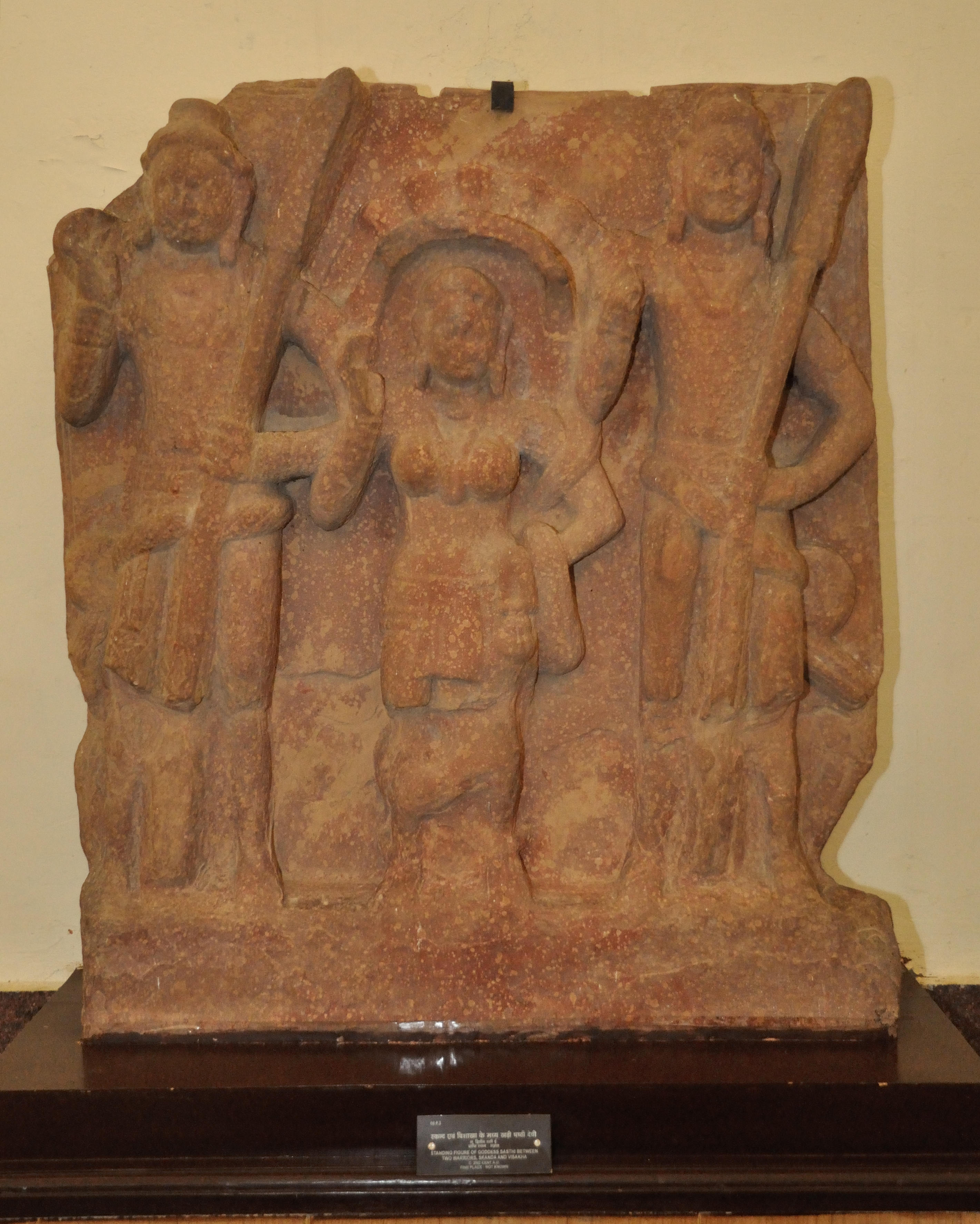 This artefact resides at the Government Museum, (hi: Rashtriya Sangrahalaya) formerly The Curzon Museum of Archaeology, Museum Road or Murari Lal Rajpal road, Dampier Nagar, Mathura, Uttar Pradesh, India. This museum is administrating by the State Government of Uttar Pradesh of India.